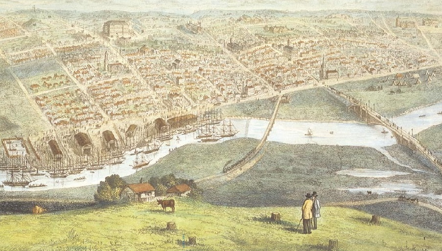 The city of Melbourne, Australia, drawn by Nathaniel Whittock from official surveys and from sketches taken in 1854 by G. Teale Esqr. of Melbourne. Published by Lloyd Brothers & Co., May 9, 1855. The Sandridge Bridge and the Sandrige Rail Line is visible in the center.